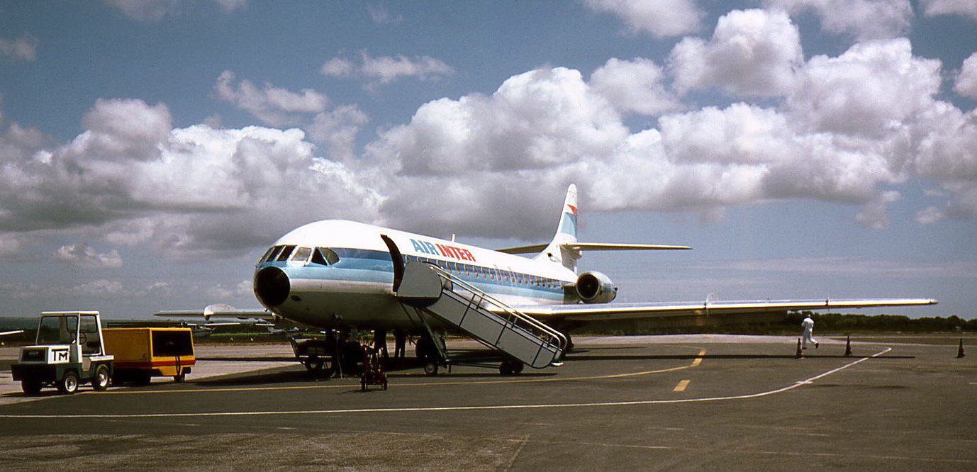 Sud Aviation Caravelle of Air Inter at Quimper–Cornouaille Airport